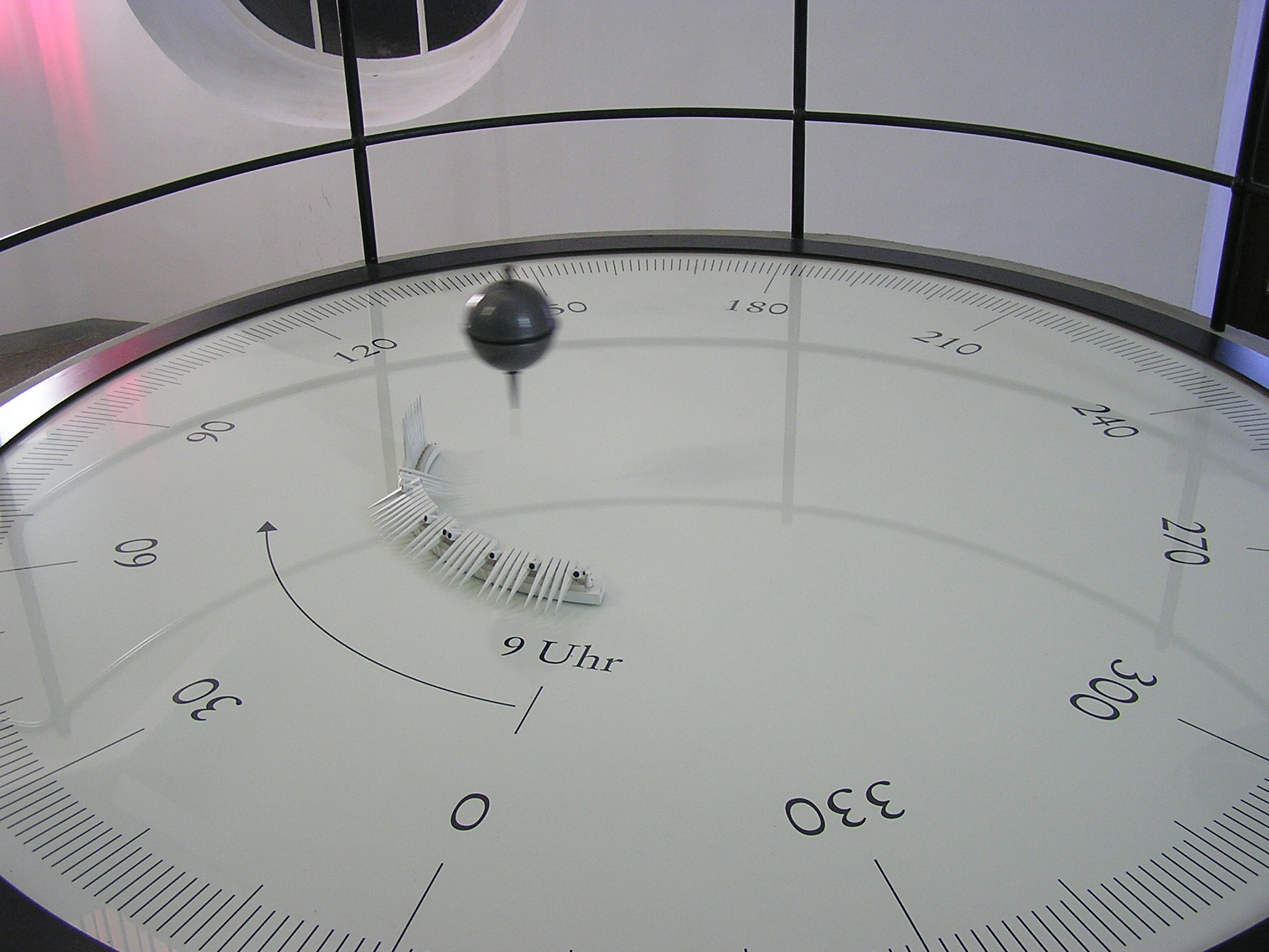 Foucault pendulum in the “Deutsches Museum” in Munich, Germany